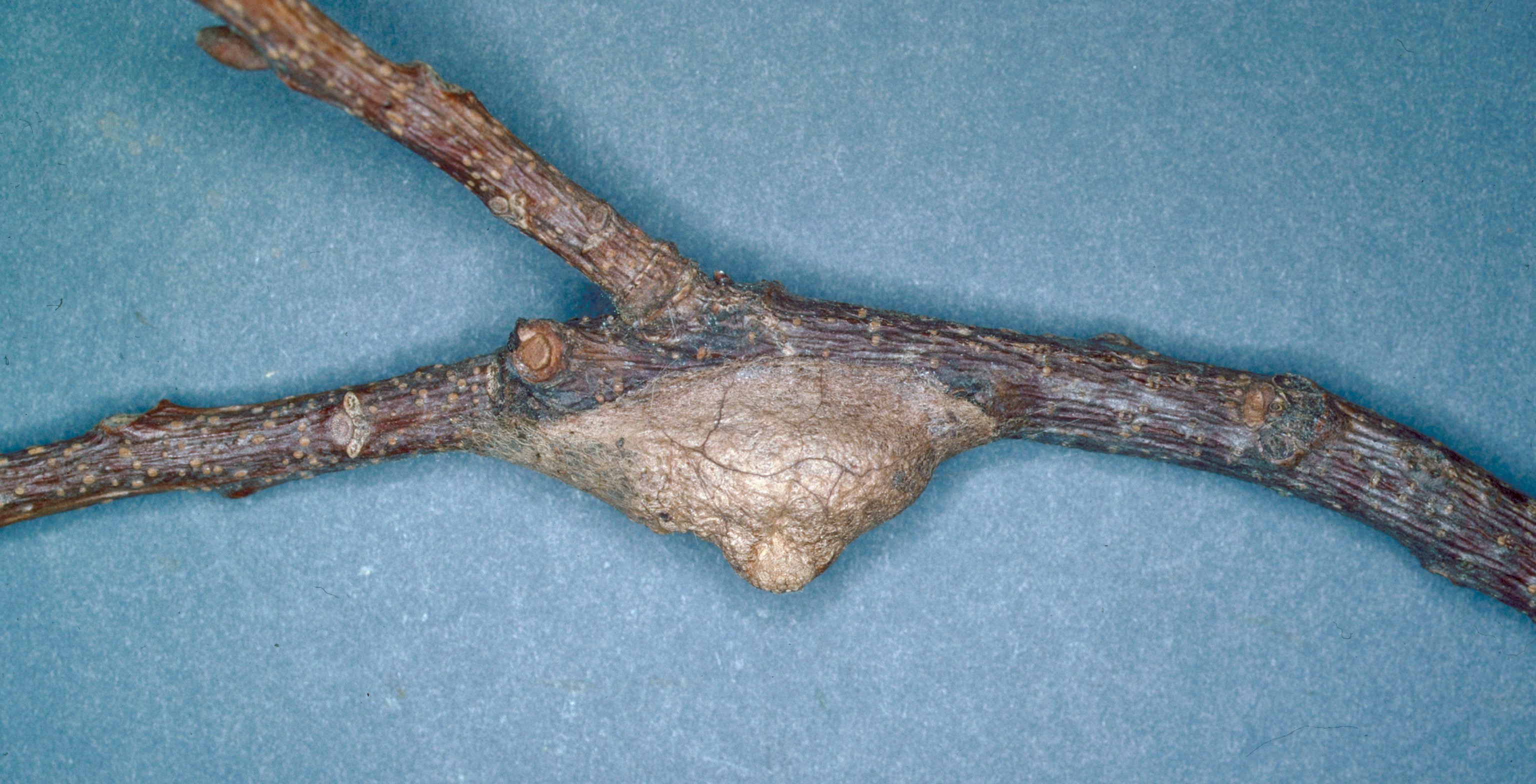 Megalopyge_opercularis_coccoon